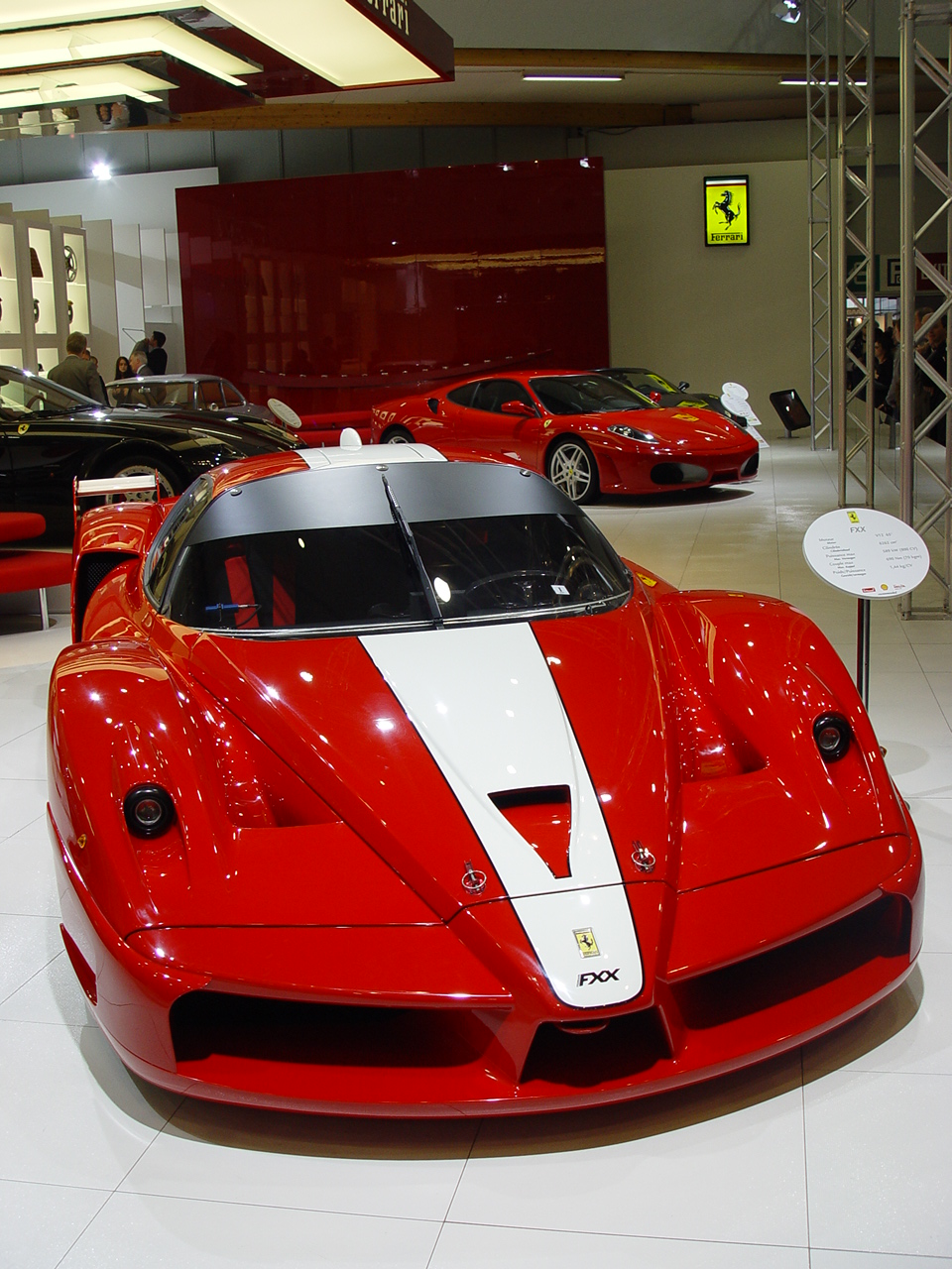 Ferrari FXX op het autosalon van Brussel/Ferrari FXX on the Motor Show of Brussels 2006